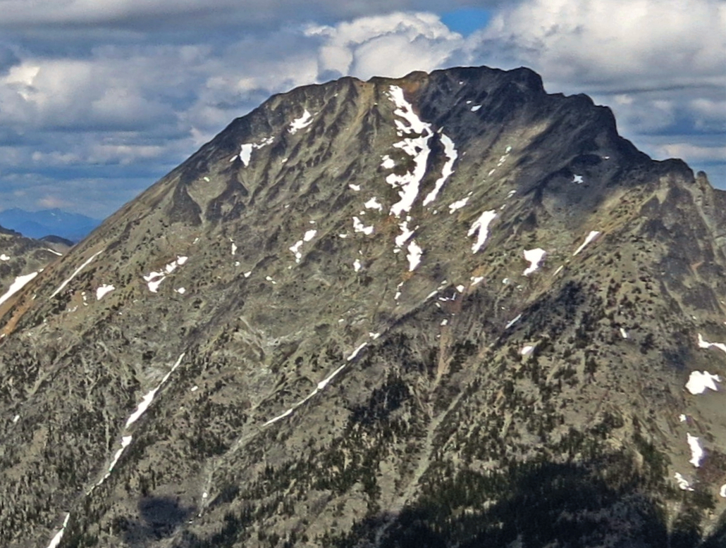 Mt. Carru in Pasayten mountains